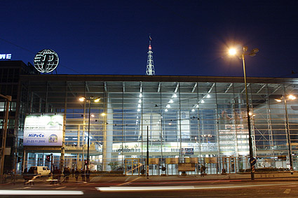 MTP